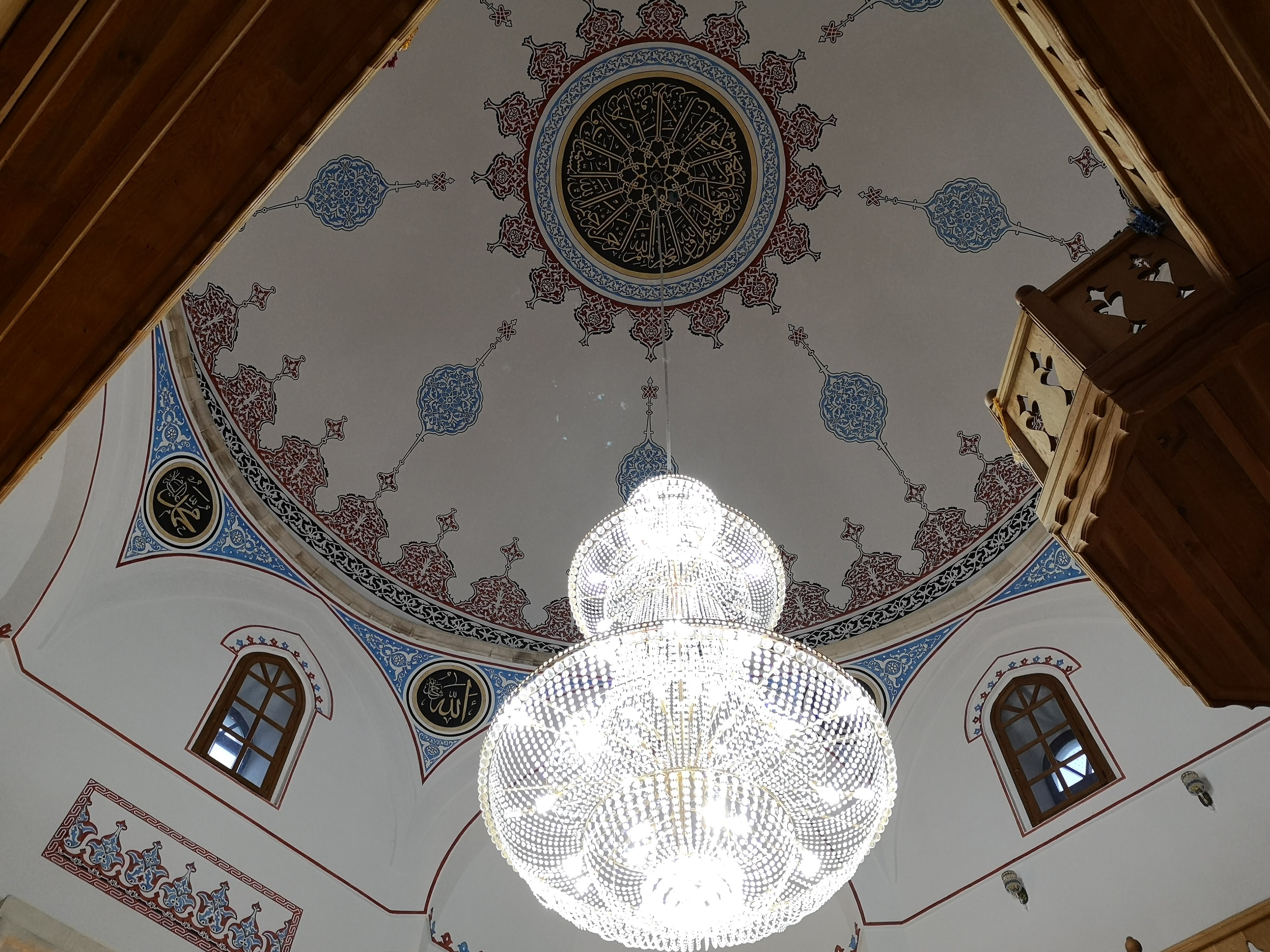 ceiling of the interior dome of the Džudža Džaferova džamija mosque in Tomislavgrad